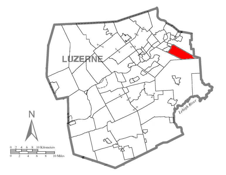 Map of Luzerne County, Pennsylvania higlighting Jenkins Township